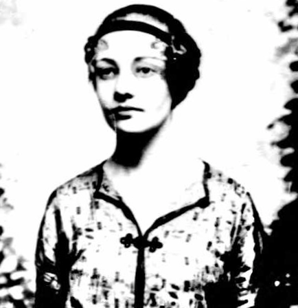 From Natacha Rambova's 1916 U.S. passport, under the name "Winifred de Wolfe"